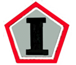 Source: GlobalSecurity: First US Army Group